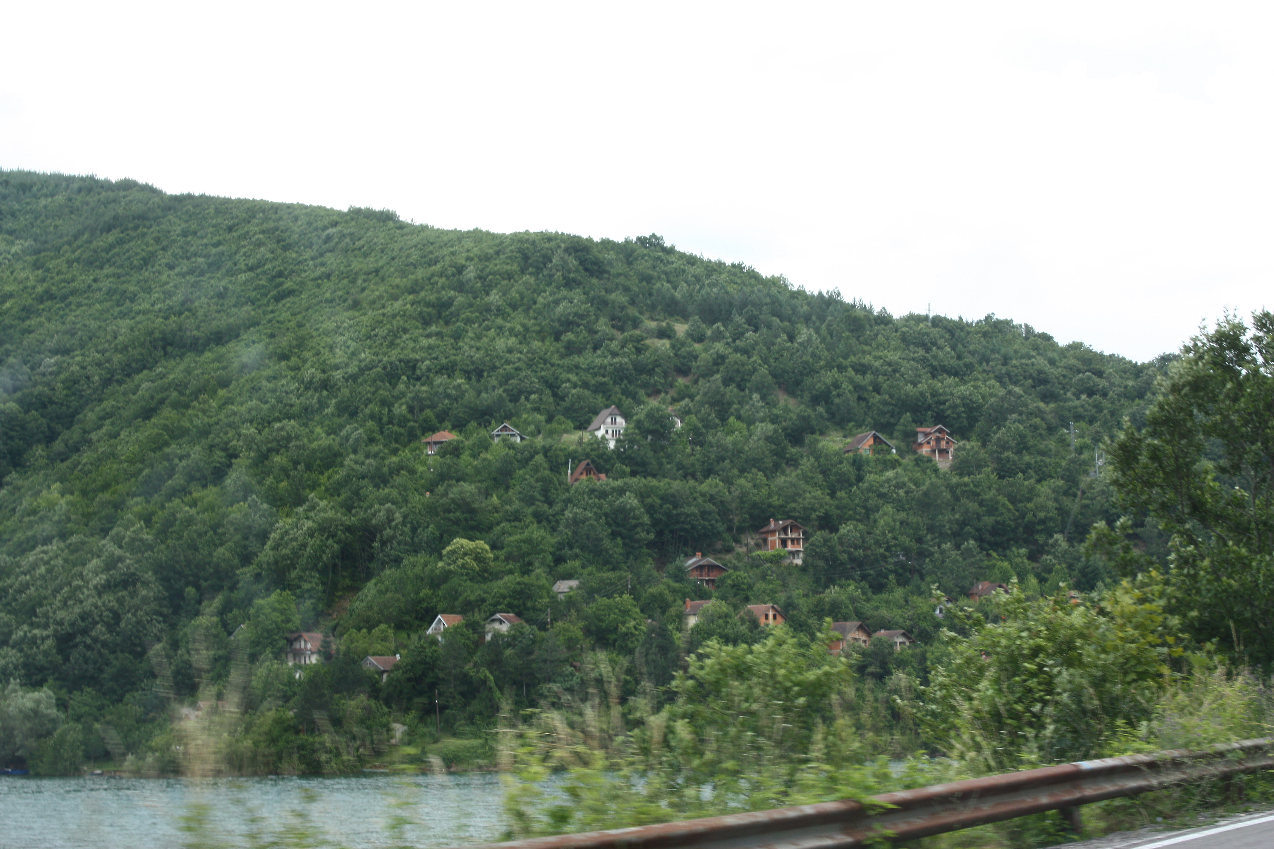 Globočica, Macedonia